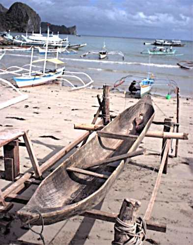 Canoe in El Nido